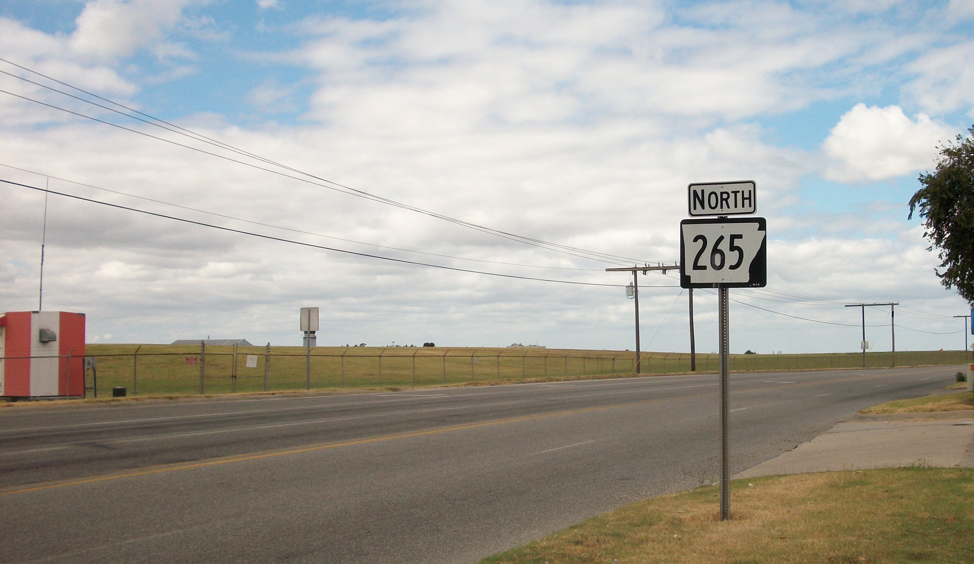 Arkansas Highway 265 Section 2 in Springdale, Washington County.